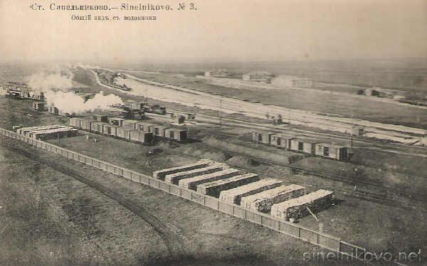 View Synelnykove